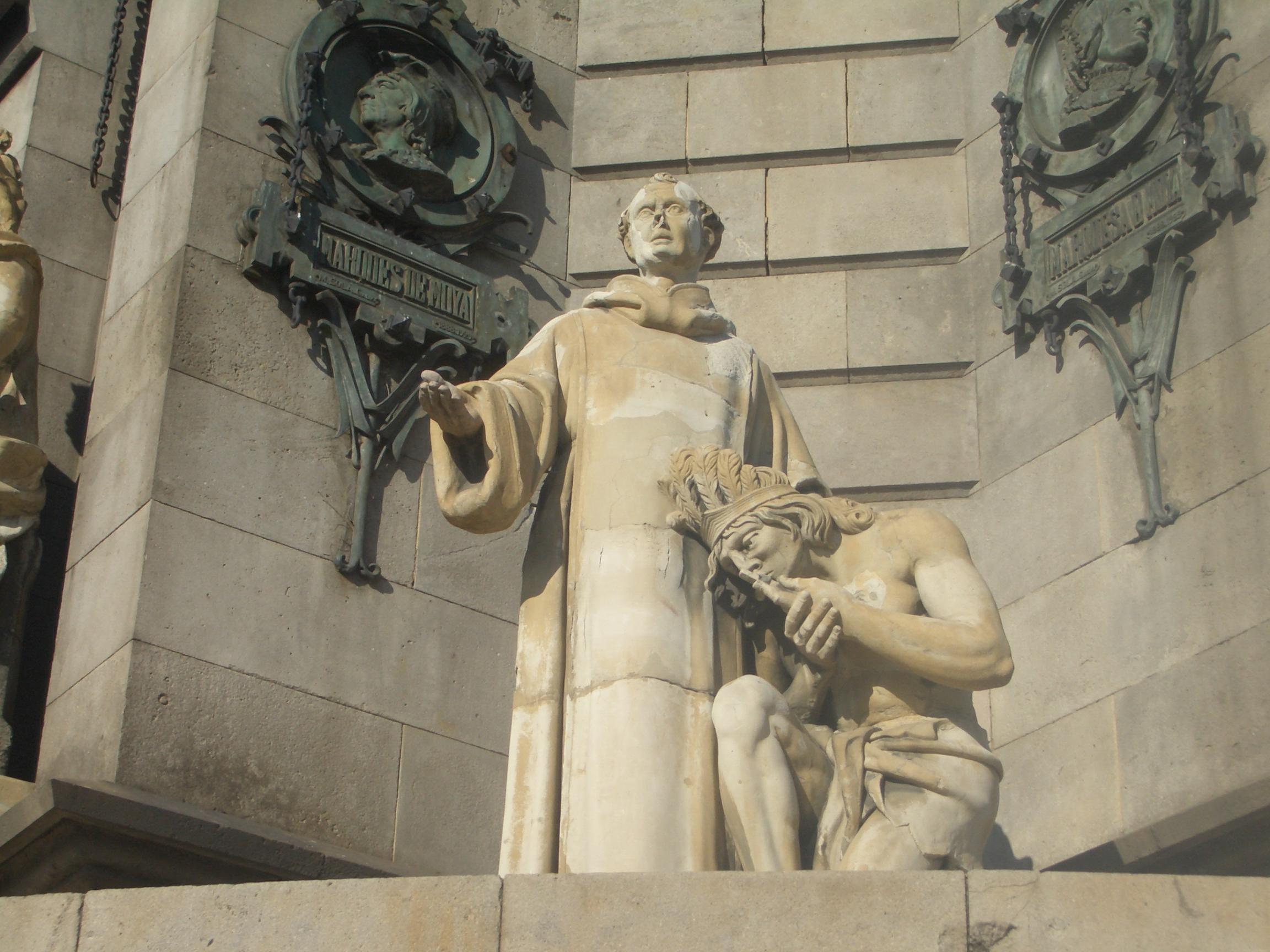 Bernardo Buil